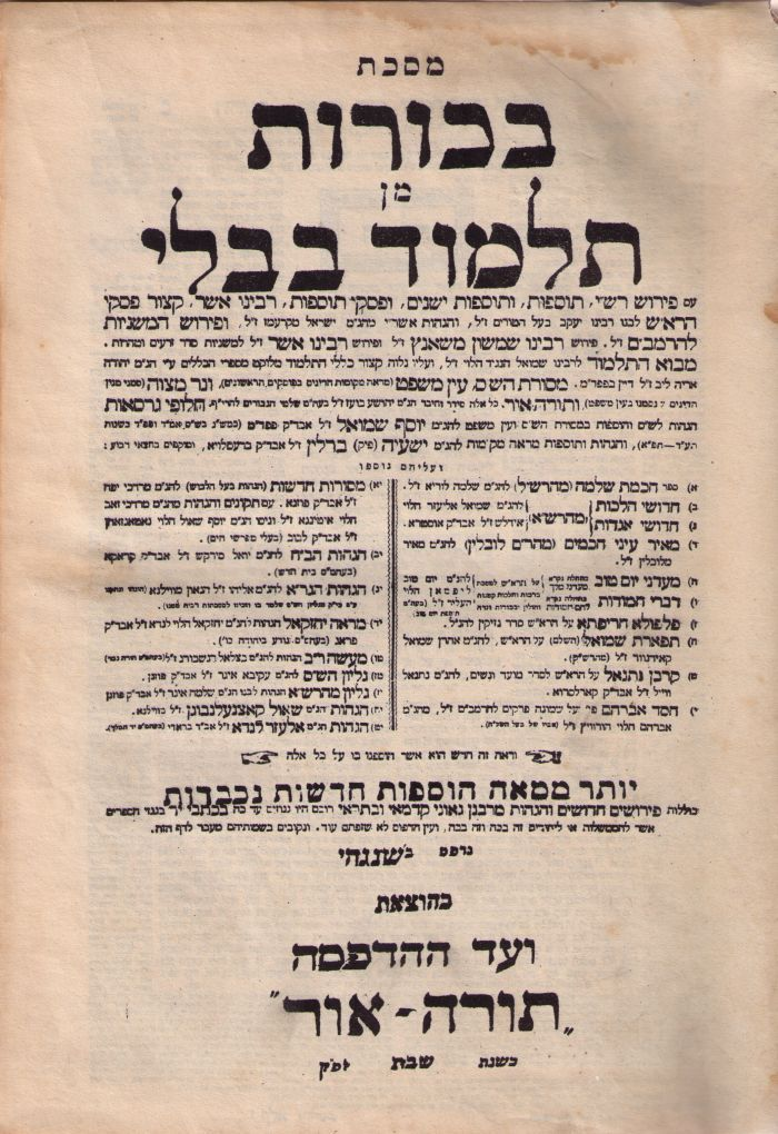 Masechet Behorit from the Talmud, Shanghai, 1942